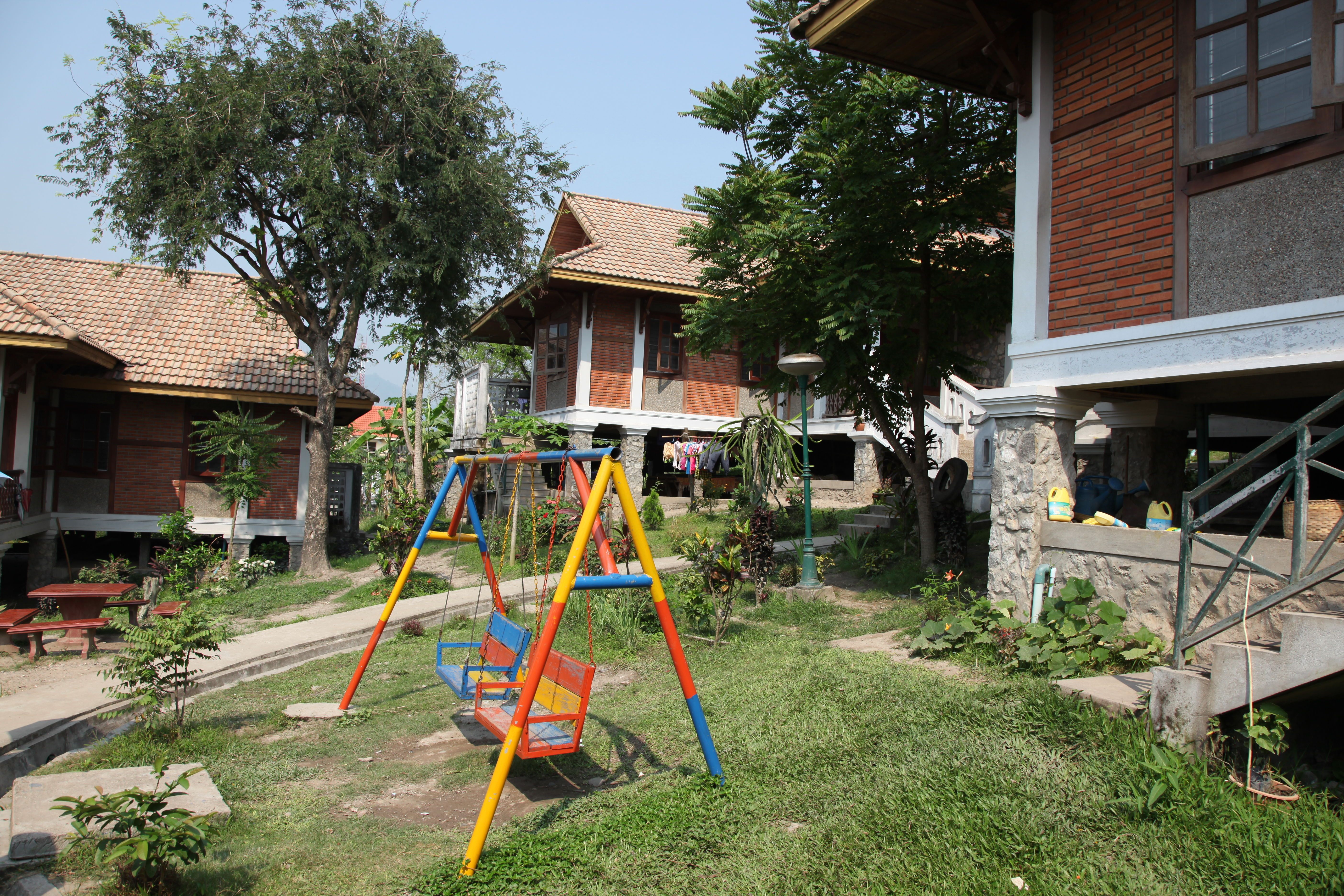 From the SOS Children's Village in Luang Prabang in Laos. Houses where the children live.